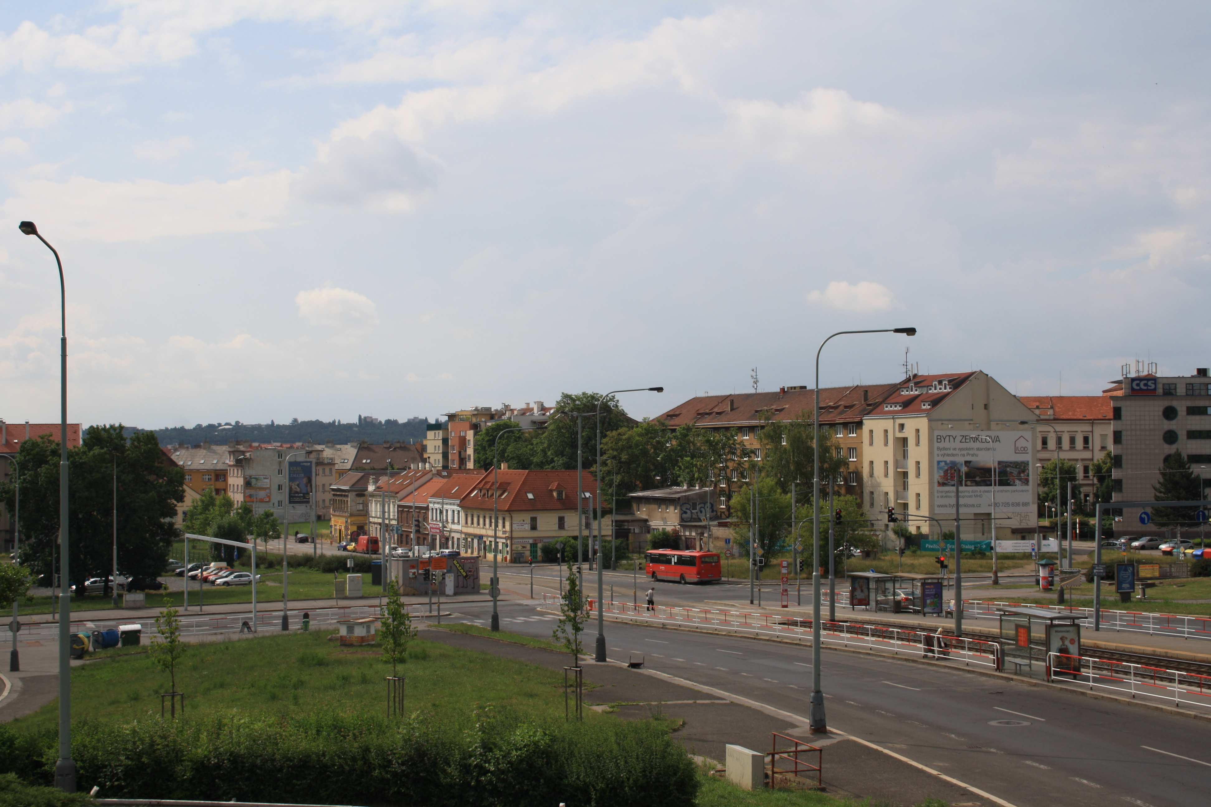 Crossing of streets Zenklova, Bulovka, Na Strazi; Prague - Liben